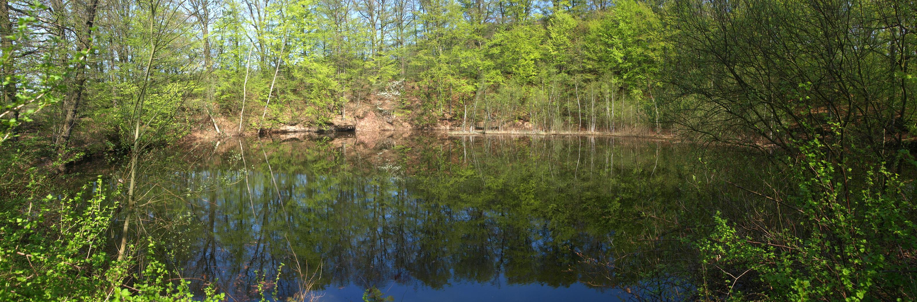 A sinkhole in Kathus, a district of Bad Hersfeld. Its come into existence during Eemian Interglacial period